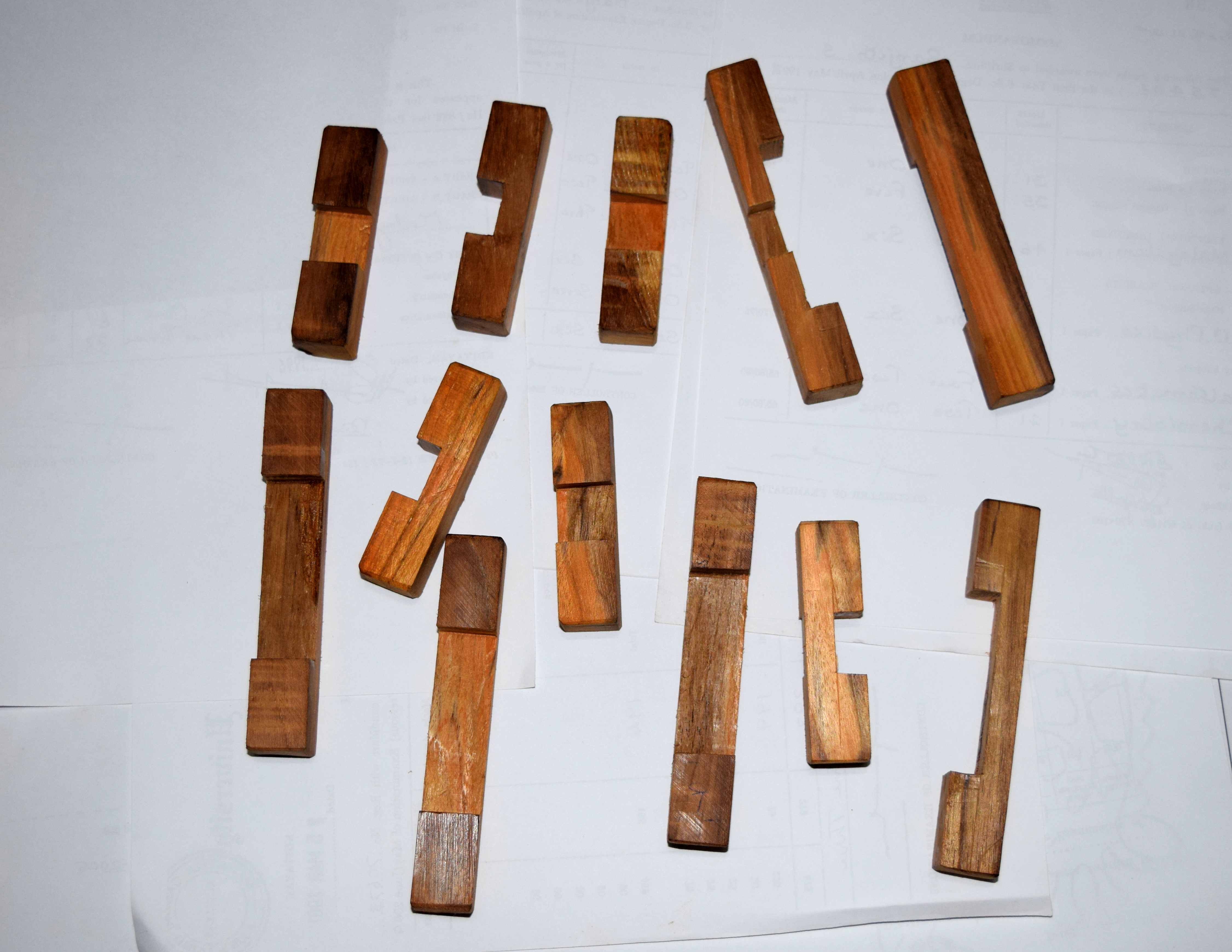 Edakoodam - a brain puzzle created with wood. found in kerala. disassembled